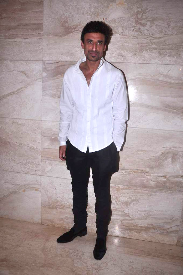 Rahul Dev at Nari Hira's birthday bash